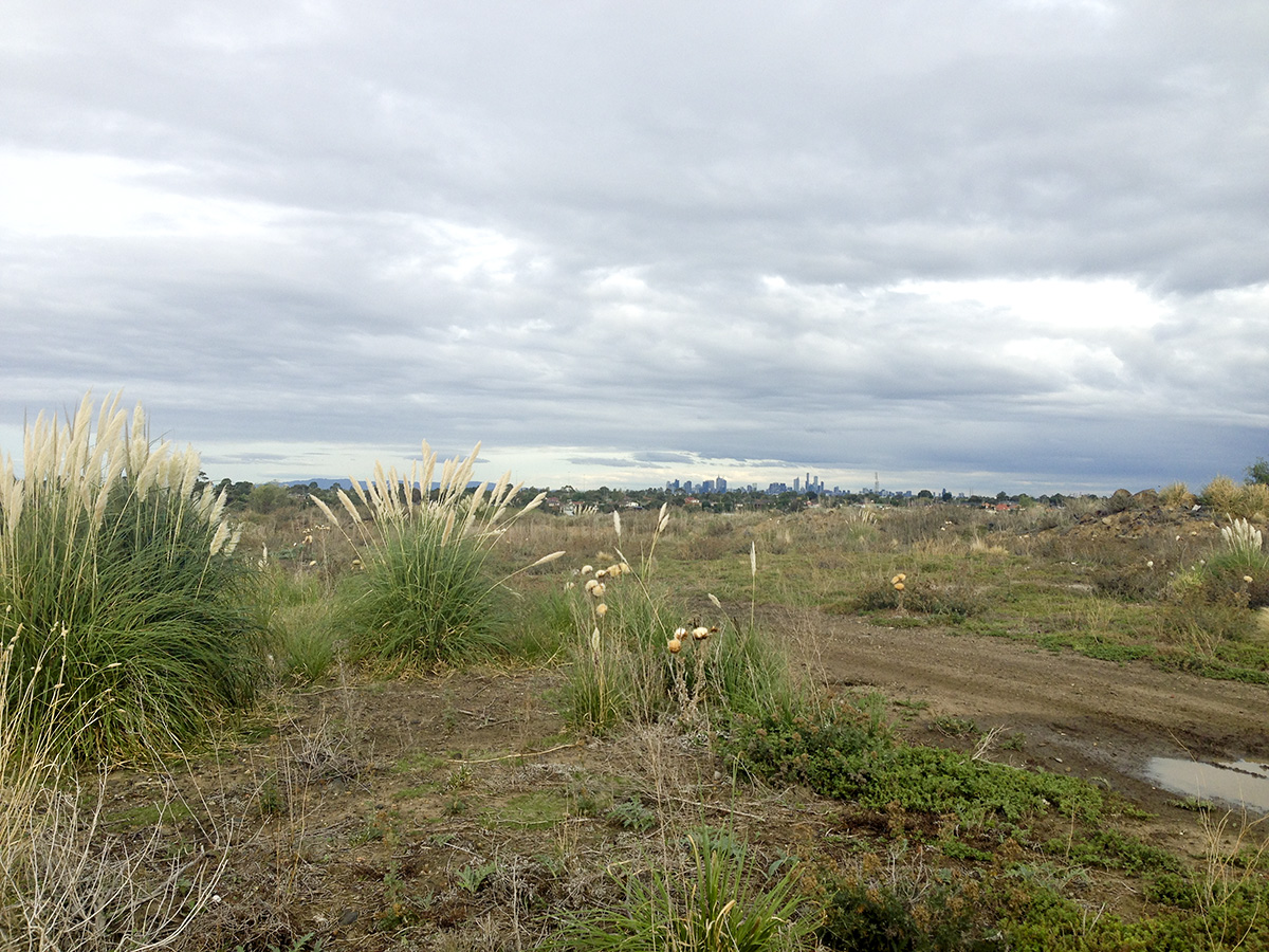 Grasslands towards Melbourne CBD, Solomon Heights (Sunshine North), Victoria AU.